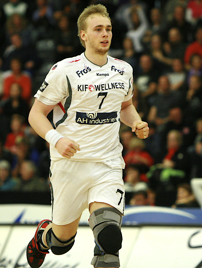 Rene Toft Hansen from KIF Kolding.